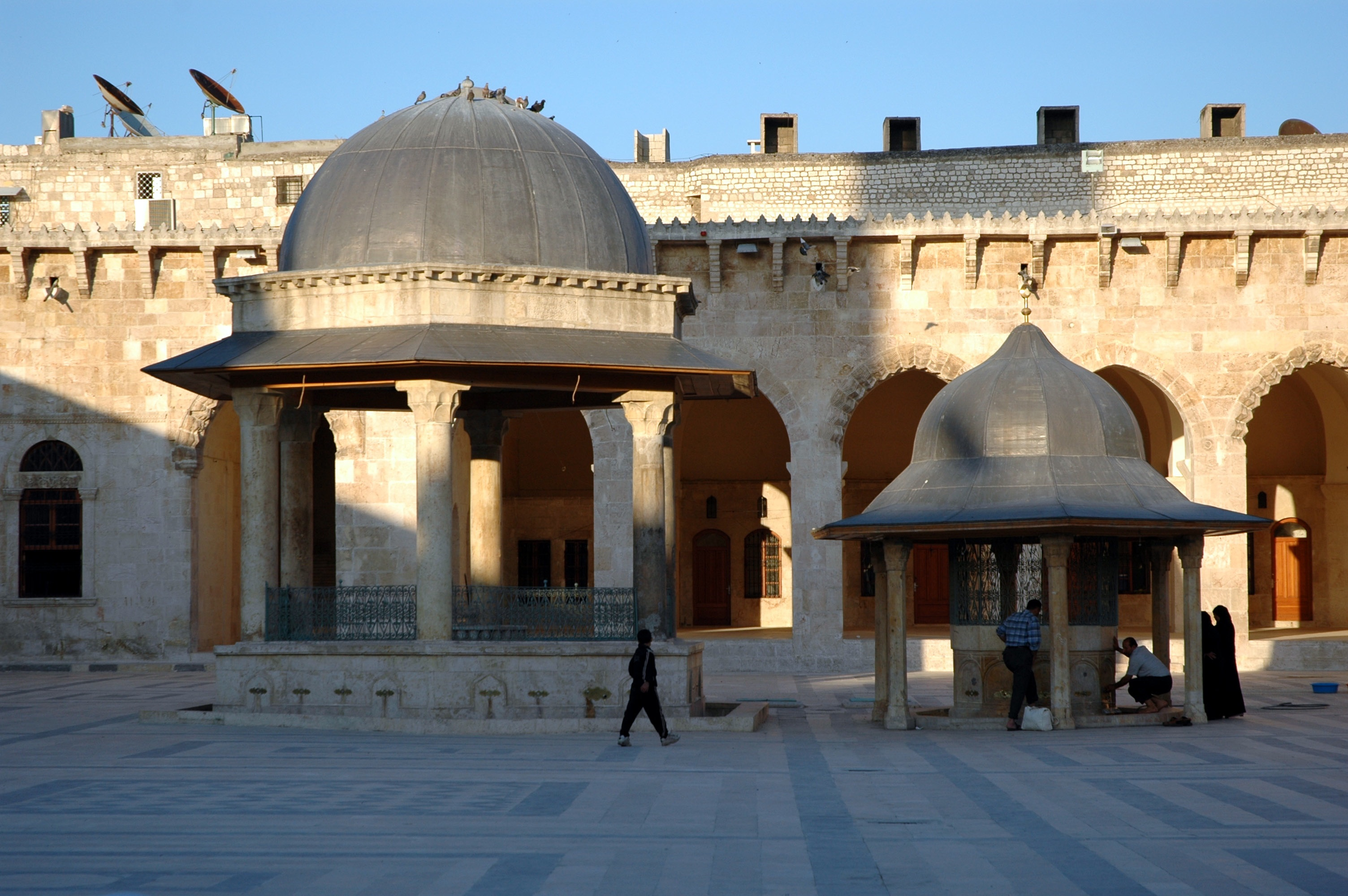 Great Mosque of Aleppo, Aleppo in 2004